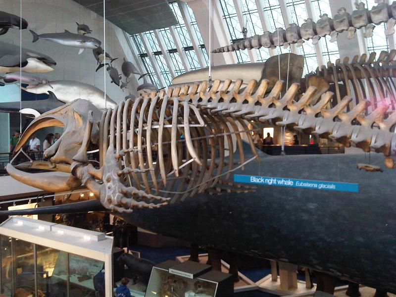 North Atlantic right whale (Eubalaena glacialis) skeleton at the Natural History Museum in London, England.